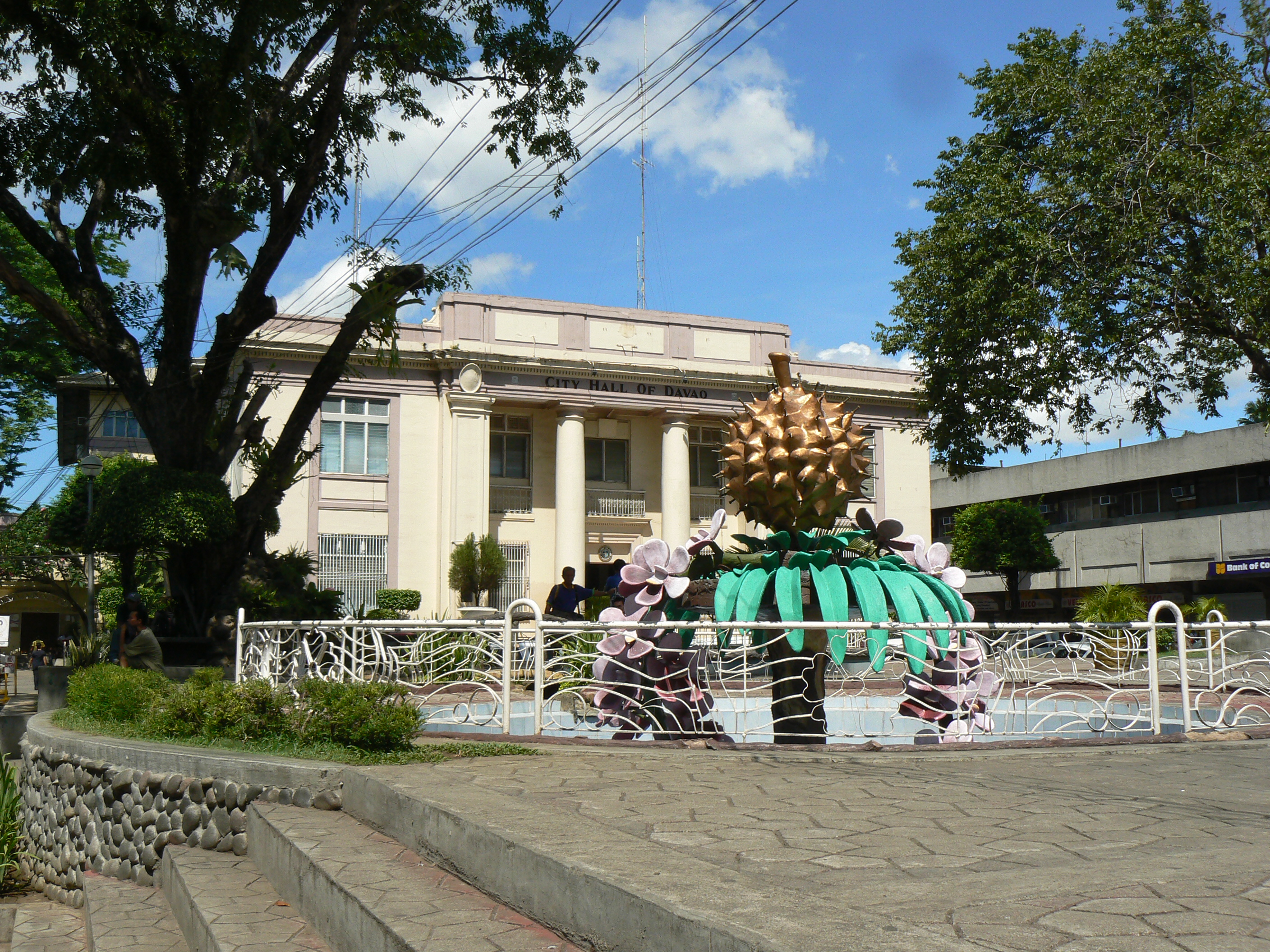 Davao City Hall, Philippines